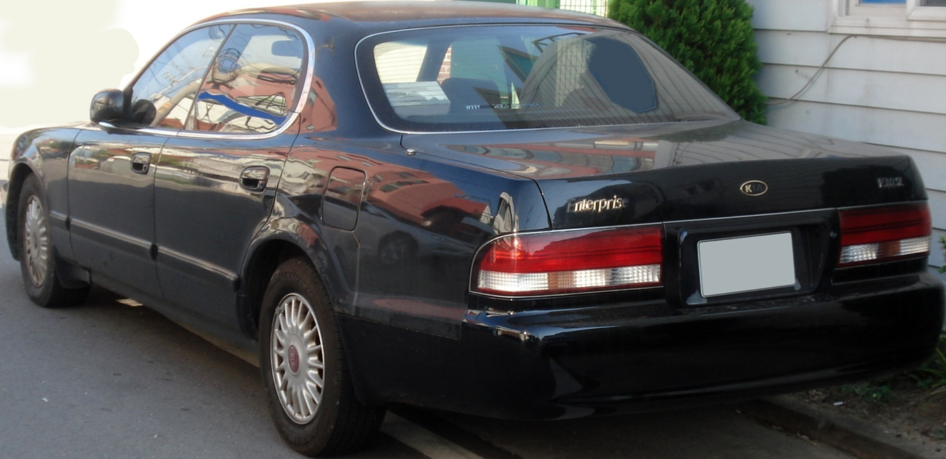 Kia Enterprise